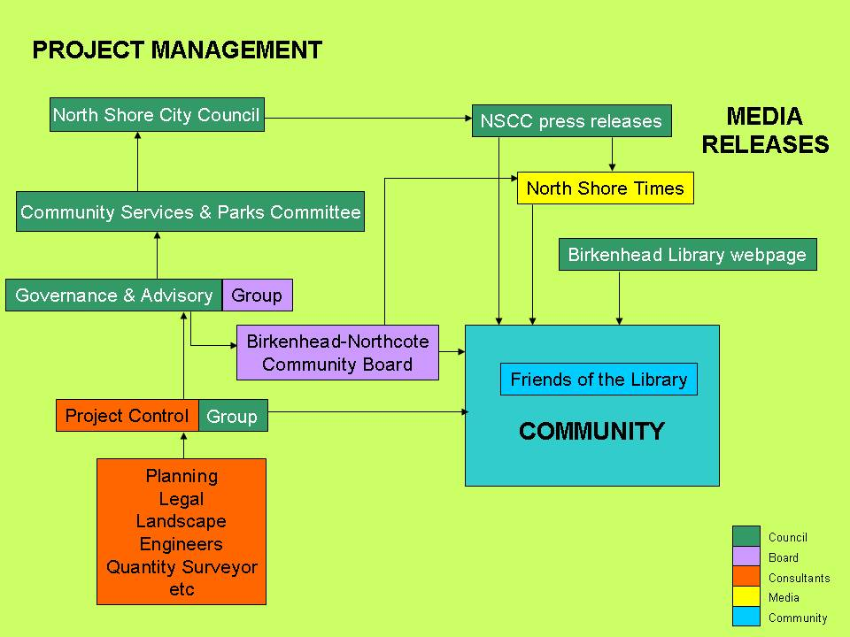 Diagram of project management structure for Birkenhead Library project